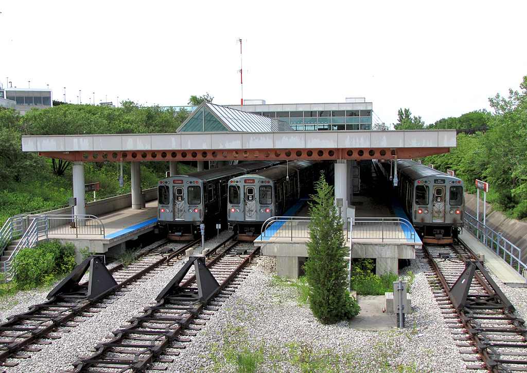 Three Orange Line trains prepare to depart toward the Loop for evening rush at the Midway "L" stop.